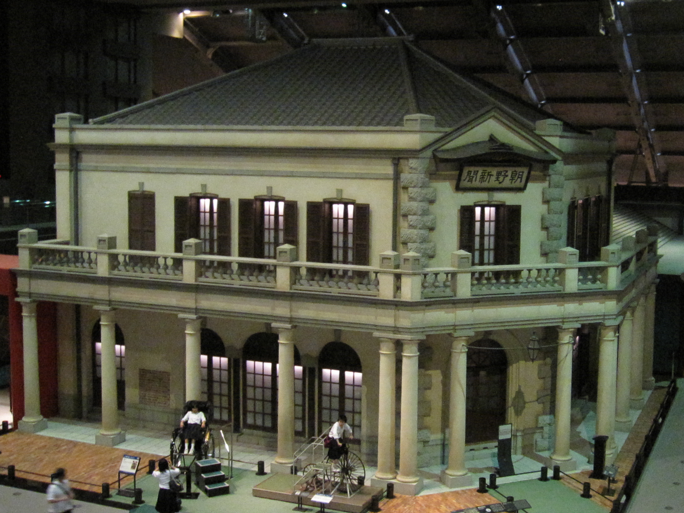 Scale 1 / 1 replica of the Choya Newspaper building in the Edo-Tokyo Museum. This building was in 1870 in what is now present-day Ginza, was home to the Choya Newspaper company. The Choya Newspaper Company was a liberal newspaper and often savagely criticized the Meiji government. As a result, it has a very popular newspaper.